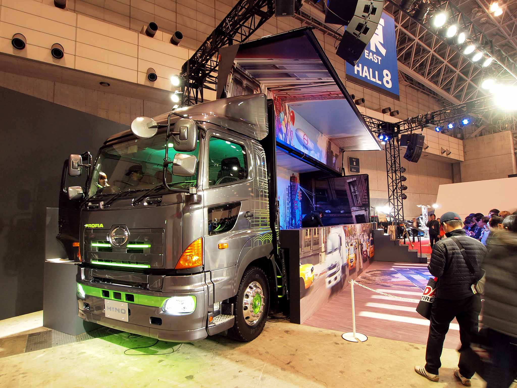 Hino Profia Wing van, Displayed at Tokyo Auto Salon 2015. Model: FR1EXBG Box manufacturer: Trantechs